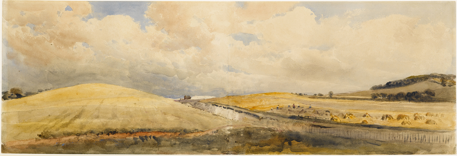 De Wint captures the encroachment of technology on pastoral land in his depiction of a railroad cutting through the cornfields of Hertfordshire. Tring Station is visible on the horizon, and the strip of white that bifurcates the fields is the chalk terrain that was cut open in order to lay the London-Birmingham Railway in the 1830s. As the rail system rapidly expanded across Britain, it produced new ways for people and goods to move across the country and new ways of viewing the land. Although depicted from within the fields themselves, the sweeping view is perhaps indicative of the panoramic vistas afforded passengers on a rapidly moving train.